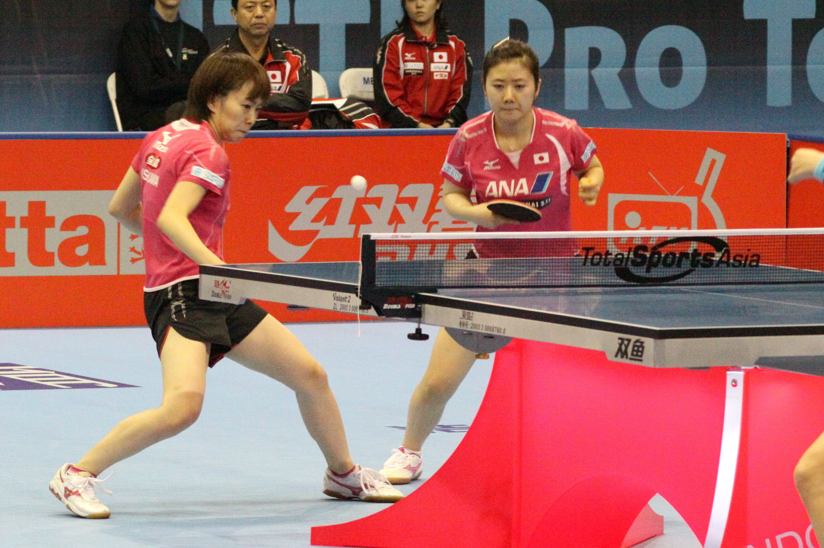 Kasumi Ishikawa (on the left) and Ai Fukuhara during the Table Tennis Pro Tour Grand Finals at the ExCeL London on November 27-28, 2011.